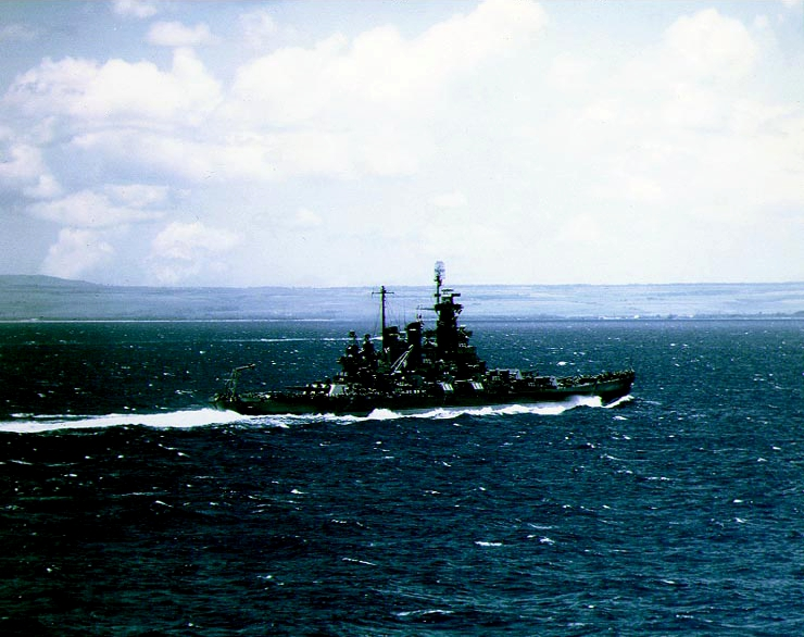 The U.S. Navy battleship USS Washington (BB-56) maneuvering off Oahu, Hawaii (USA), in mid-1943.